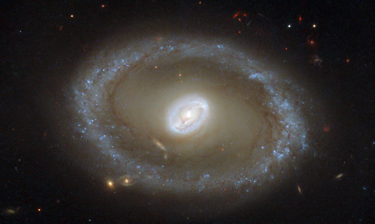 Taking centre stage in this new NASA/ESA Hubble Space Telescope image is a galaxy known as NGC 3081, set against an assortment of glittering galaxies in the distance. Located in the constellation of Hydra (The Sea Serpent), NGC 3081 is located over 86 million light-years from us. It is known as a type II Seyfert galaxy, characterised by its dazzling nucleus. NGC 3081 is seen here nearly face-on. Compared to other spiral galaxies, it looks a little different. The galaxy's barred spiral centre is surrounded by a bright loop known as a resonance ring. This ring is full of bright clusters and bursts of new star formation, and frames the supermassive black hole thought to be lurking within NGC 3081 — which glows brightly as it hungrily gobbles up infalling material. These rings form in particular locations known as resonances, where gravitational effects throughout a galaxy cause gas to pile up and accumulate in certain positions. These can be caused by the presence of a "bar" within the galaxy, as with NGC 3081, or by interactions with other nearby objects. It is not unusual for rings like this to be seen in barred galaxies, as the bars are very effective at gathering gas into these resonance regions, causing pile-ups which lead to active and very well-organised star formation. Hubble snapped this magnificent face-on image of the galaxy using the Wide Field Planetary Camera 2. This image is made up of a combination of ultraviolet, optical, and infrared observations, allowing distinctive features of the galaxy to be observed across a wide range of wavelengths. Notes A paper based on these observations was published in The Astronomical Journal in 2004, entitled "A Hubble Space Telescope Study of Star Formation in the Inner Resonance Ring of NGC 3081" by Ronald J. Buta, Gene G. Byrd, and Tarsh Freeman.